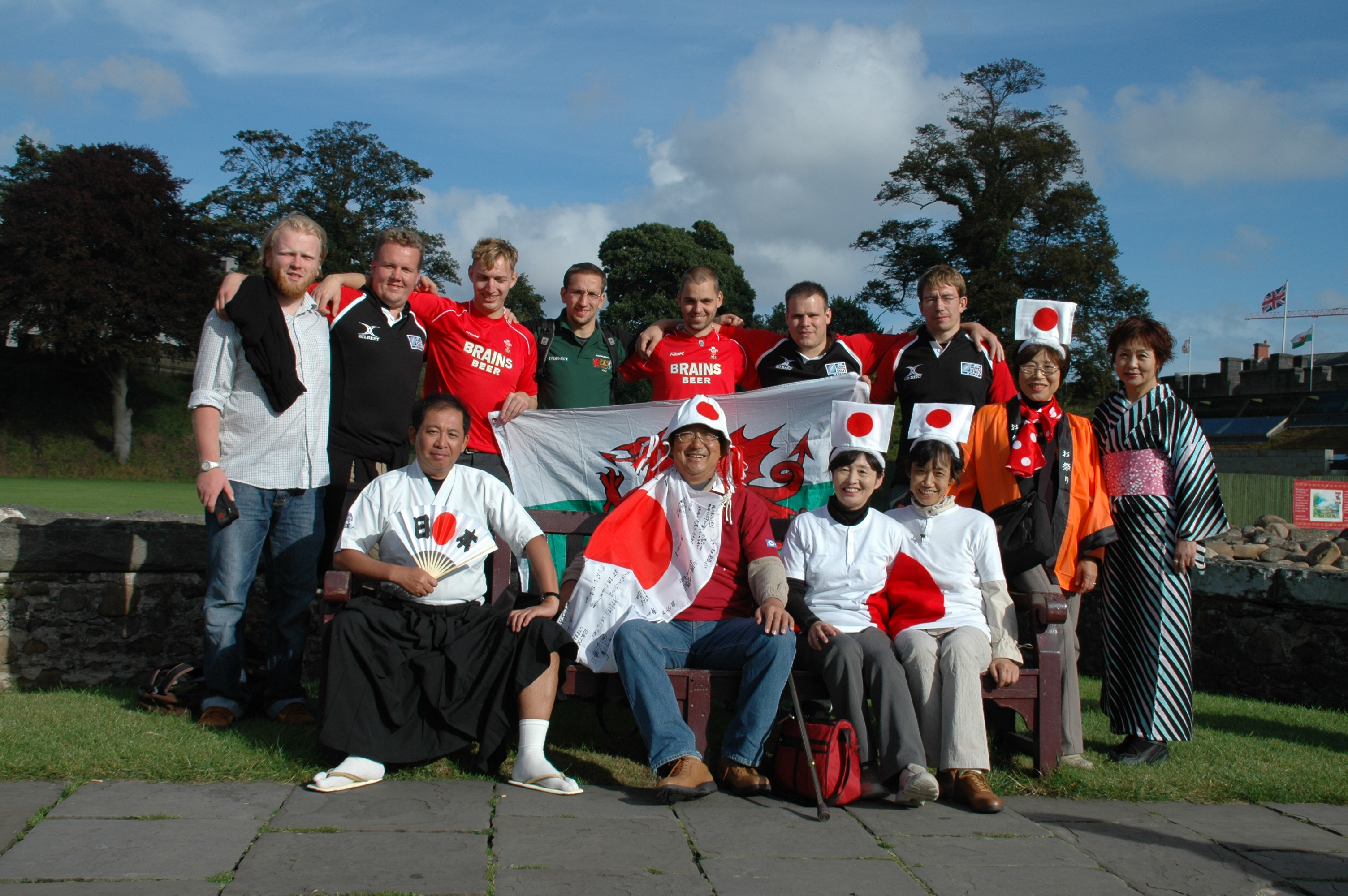 Japanease Rugby Team Supporters and Dresden Hillbillies - This photo has been taken in the garden of Cardiff Castle during the Rugby World Cup. At this day Japan played vs. Wales. If you know these fine people from Japan, please leave a note. The man in the middle took a photo with me sitting between his friends just after i took this one. - 20 sept 2007 - Wales vs Japan Rugby union World Cup